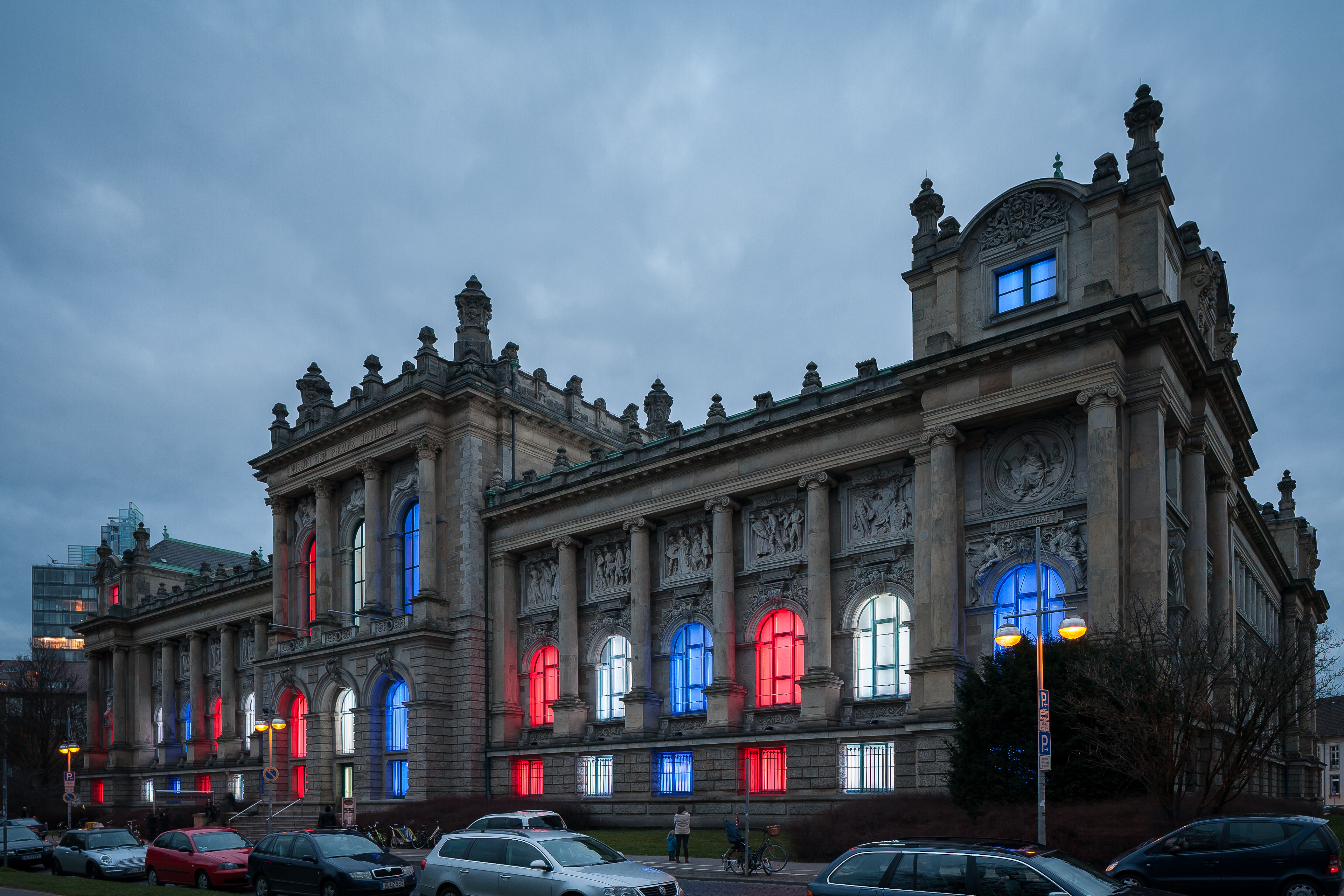 State Museum in Hanover, Germany. Light Show.